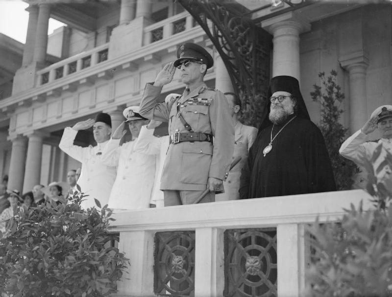 IWM caption : King George of the Hellenes taking the salute during the playing of the National Anthem at a military parade in Alexandria. Left (saluting) is Baker Pasha (Chief of Police, Alexandria) and next to him, Admiral Sir Henry Harwood. Second from right is Christoforos II, Greek Orthodox Patriarch of Alexandria and all Africa.